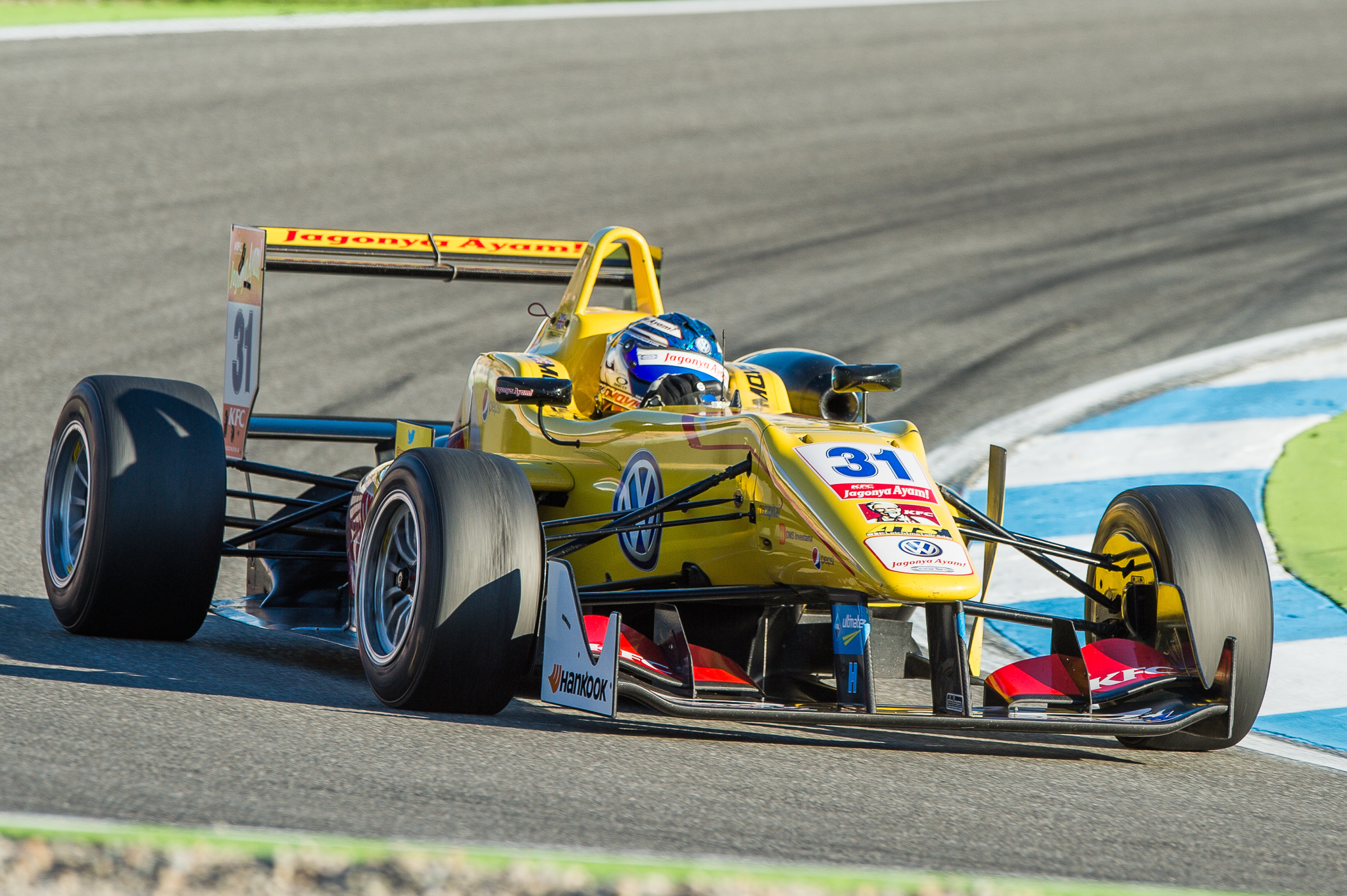 DTM,Dallara F312,Deutsche Tourenwagen Masters,F3 FIA European Championship,FIA Formel 3 Europameisterschaft,Hockenheimring,Jagonya Ayam with Carlin,Motorsport,Tom Blomqvist,Volkswagen